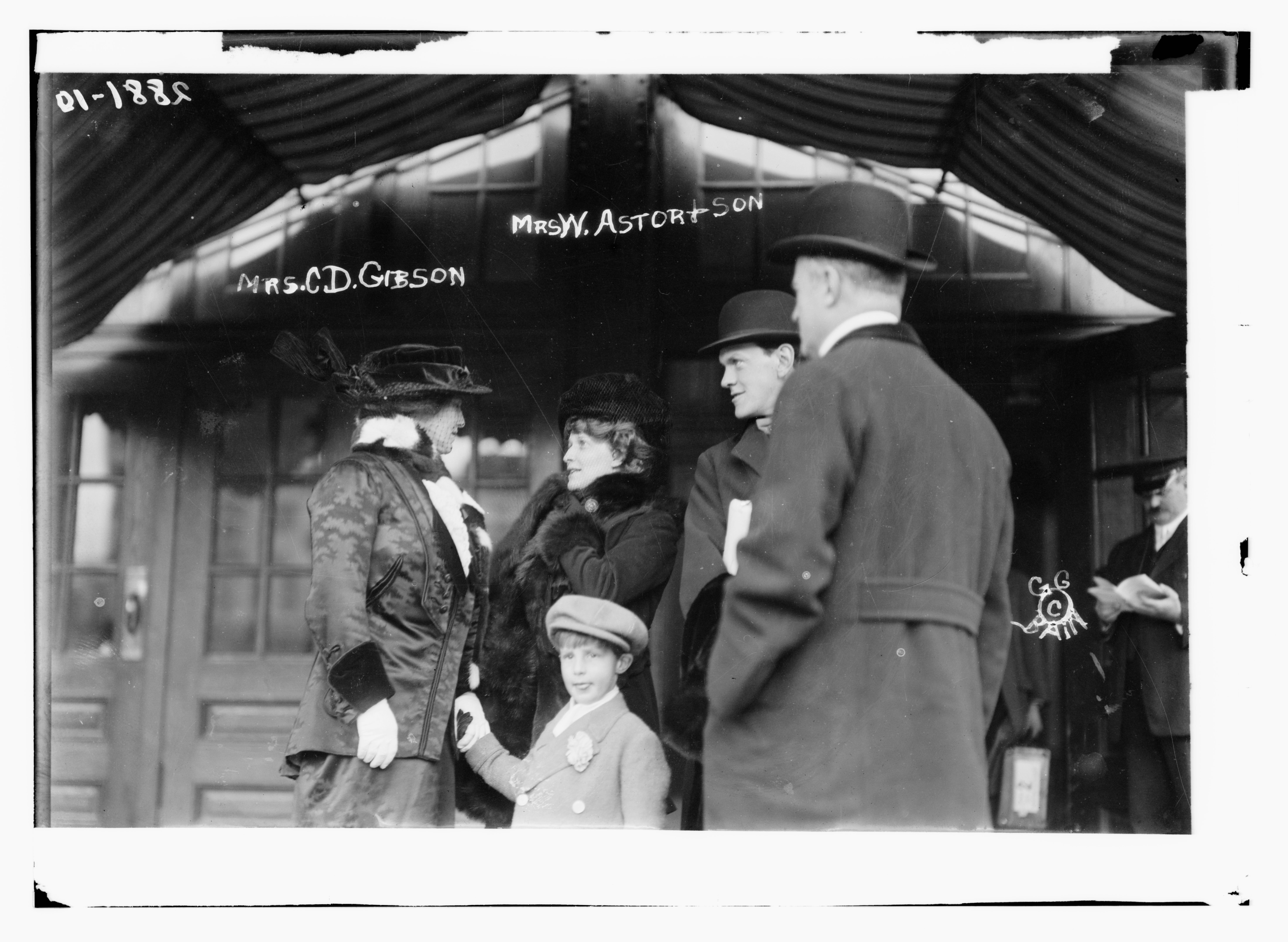 Bain News Service,, publisher. Mrs. C.D. Gibson -- Mrs. W. Astor & son [between ca. 1910 and ca. 1915] 1 negative : glass ; 5 x 7 in. or smaller. Notes: Title from data provided by the Bain News Service on the negative. Photo shows Mrs. Charles Dana Gibson, the former Irene Langhorne (d. 1956) with her sister Nancy Astor, Viscountess Astor (1879-1964), the wife of Waldorf Astor, 2nd Viscount Astor and her son; William Waldorf Astor, 3rd Viscount Astor (1907-1966). (Source: Flickr Commons project, 2010) Forms part of: George Grantham Bain Collection (Library of Congress). Format: Glass negatives. Repository: Library of Congress, Prints and Photographs Division, Washington, D.C. 20540 USA, General information about the Bain Collection is available at Persistent URL: Call Number: LC-B2- 2881-10